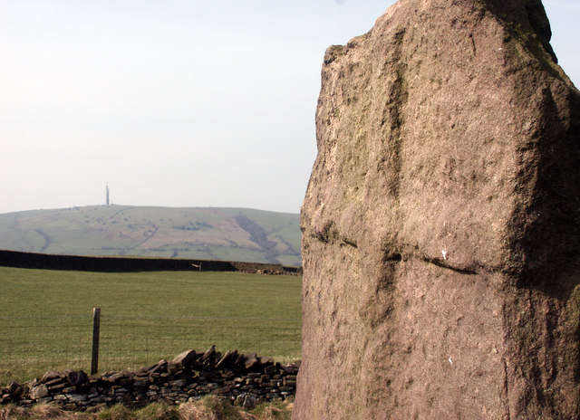 Plague Stone With Sutton Common radio mast in the distance.